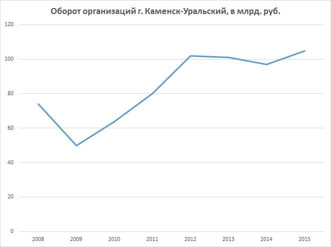 Городовой оборот предприятий города Каменск-Уральский Свердловская область, РФ